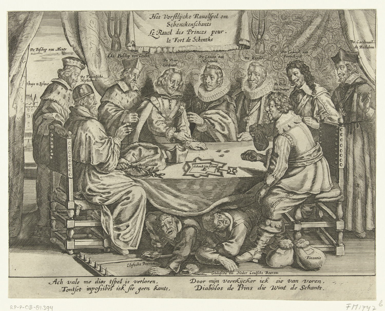 Game over for the Schenckenschans. Etching.